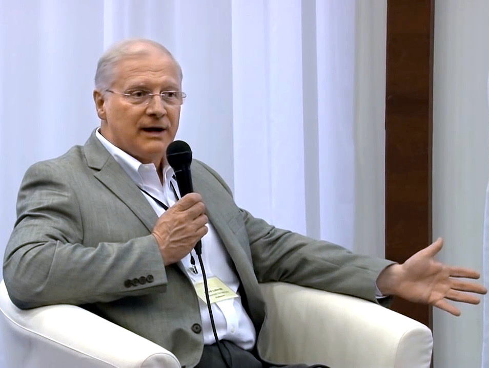 American intelligence researchers and former presidents of the International Society for Intelligence Research: Linda Gottfredson interviewed by David Lubinski Saint Petersburg July 15, 2016